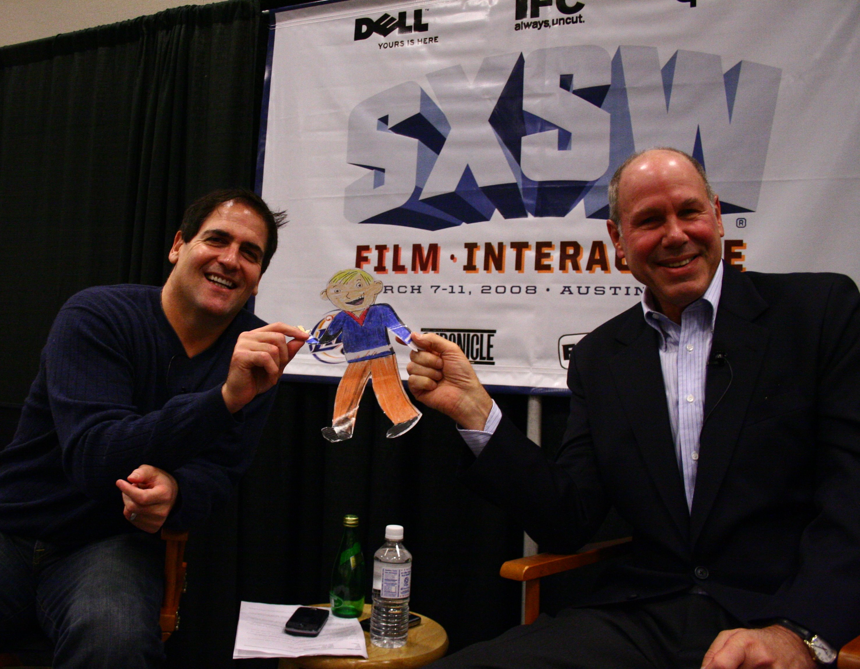 Mark Cuban, Michael Eisner and Flat Stanley at SXSWi 2008